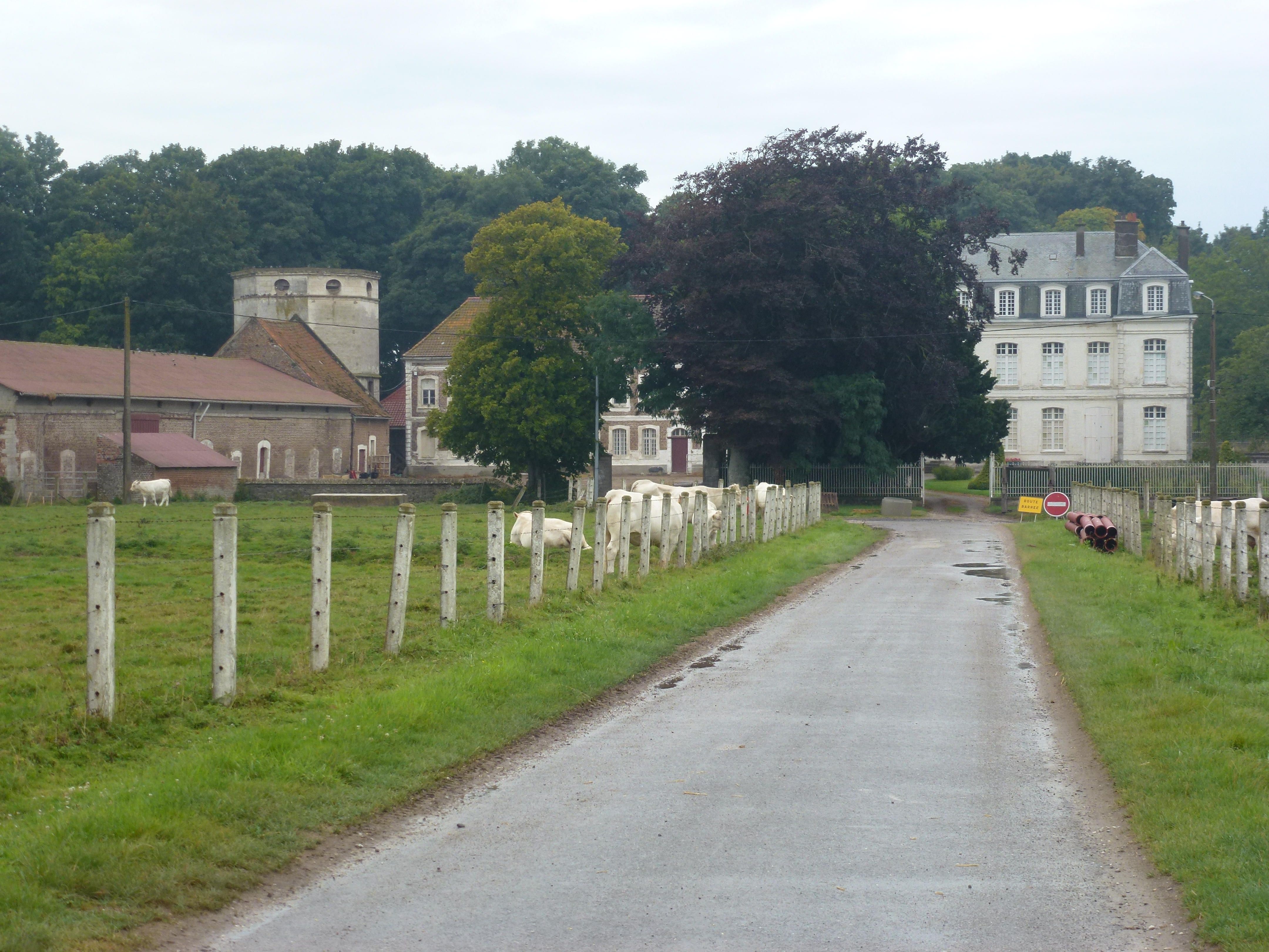 Hames-Boucres (Pas-de-Calais) château